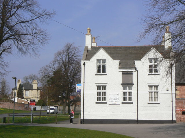 South Wilford Endowed CE VA Primary School The 'To Let' sign is slightly misleading; it refers to this building only, not to the school as a whole. However, a building dating from 1736 is hardly suited to modern educational needs. The tablet above the middle window reads as follows: This School was Erected 1736 pursuant to the will of the Revd MR CARTER late Rector of this Parish who left £200 for that purpose & £50 p annum Salary for the Schoolmaster to be chosen by the Rector for the time being & £5 p annum to buy Books & other Necessarys for the School & £5 p annum to put a Scholar out Apprentice & £5 yearly to ye Poor of this Town & £400 to purchase Land for ye Augmentation of ye aforesaid Charitys . He built ye Parsonage - House Barn Stable & Dove coat. He gave a set of Communion Plate & Beautified the Chancel in his lifetime & left a sum to beautify ye Church answerable to the Chancel & bequeathed many other considerable Charitys. He died ye 23d of December 1732 and lies buried in ye Chancel. W.Tilly Sculpsit Clearly the Rector was a wealthy man for those days. Also of interest in the text of the tablet is the mixed use of p(er) annum and yearly, and also of ye and the.